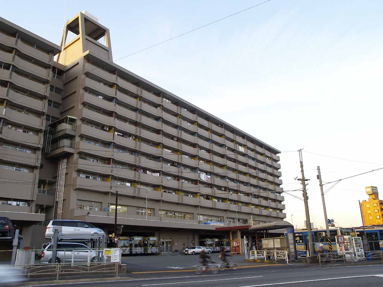 Tsurumi Dept. of Yokohama City Bus, located in Namamugi.